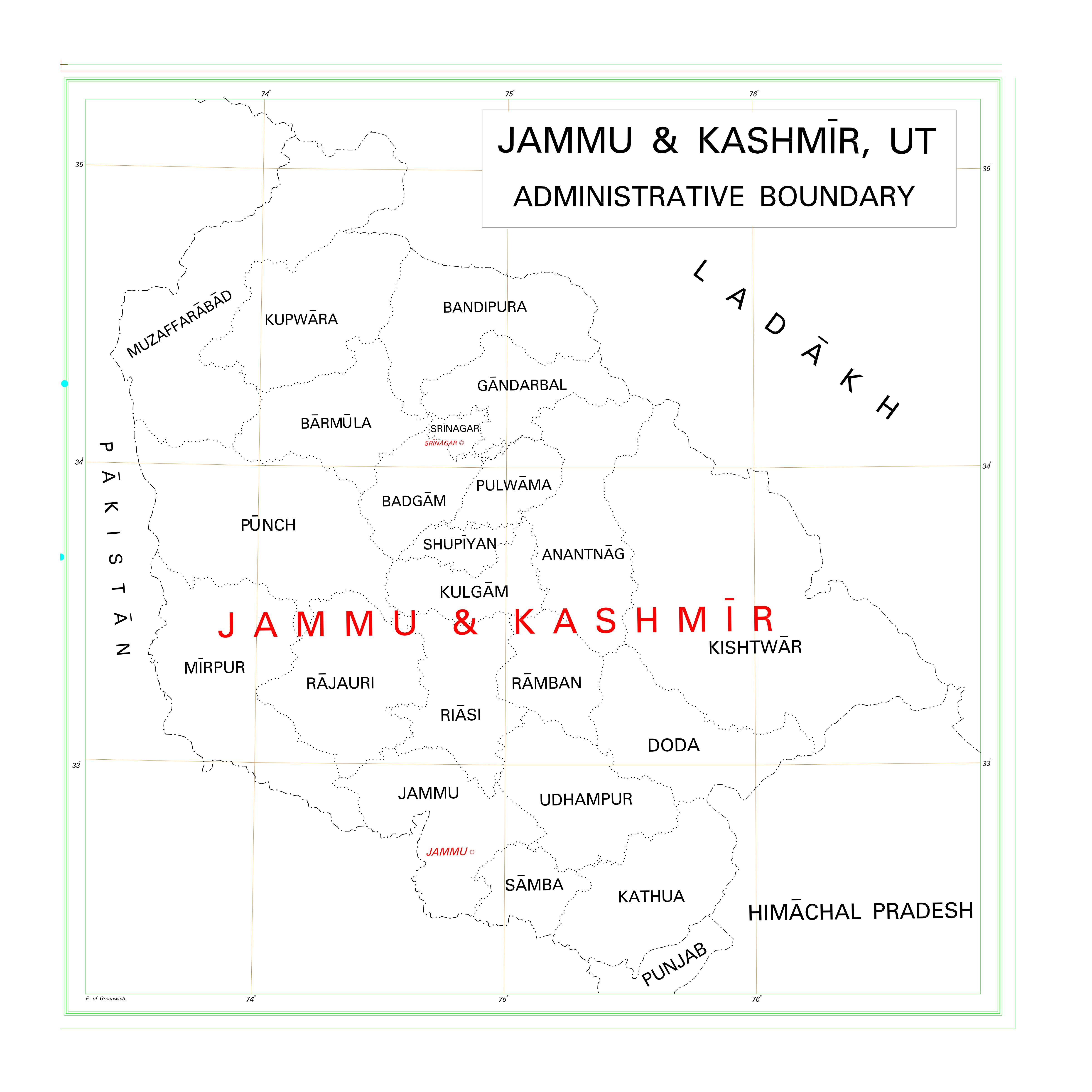 Map of Jammu and Kashmir Union Territory, of India